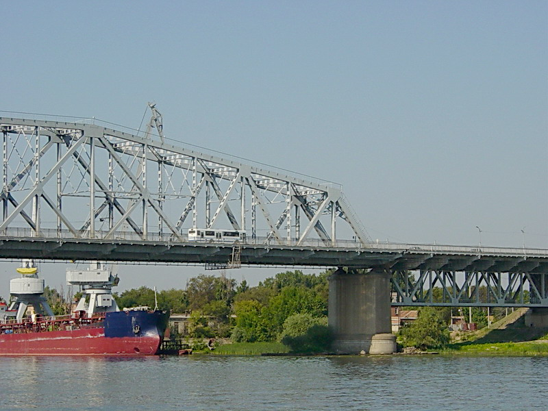 View on old deutch bridge, Volga river, Astrakhan